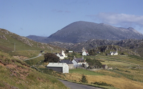 Achriesgill East